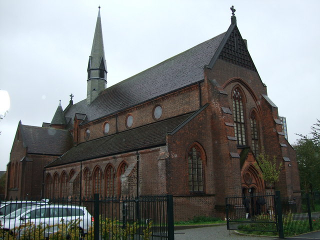 St Clement's Church, Ordsall, Salford Built 1878, architects Paley & Austin.